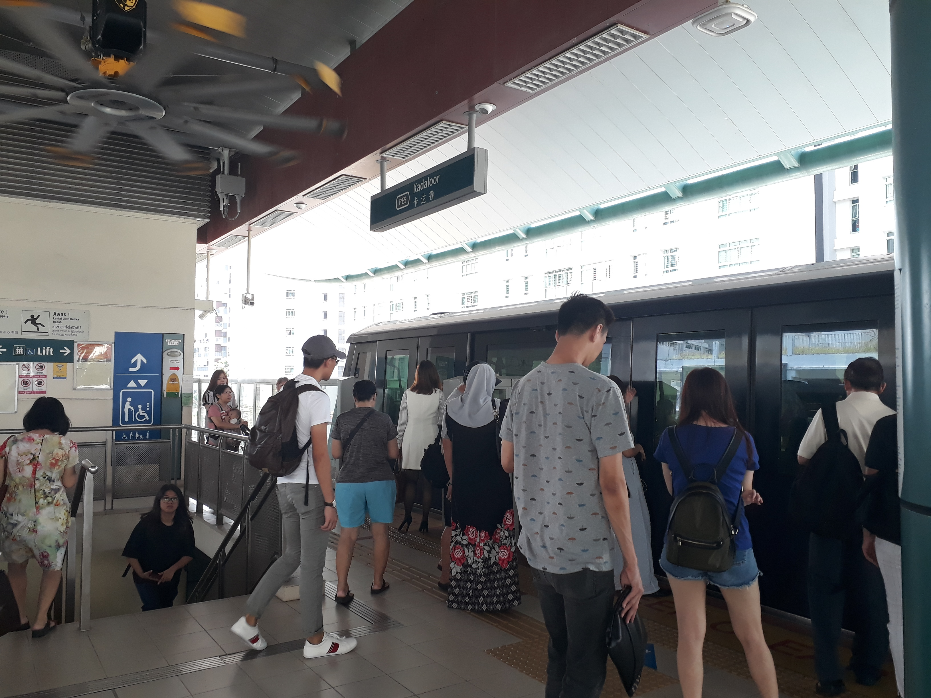 Kadaloor LRT station